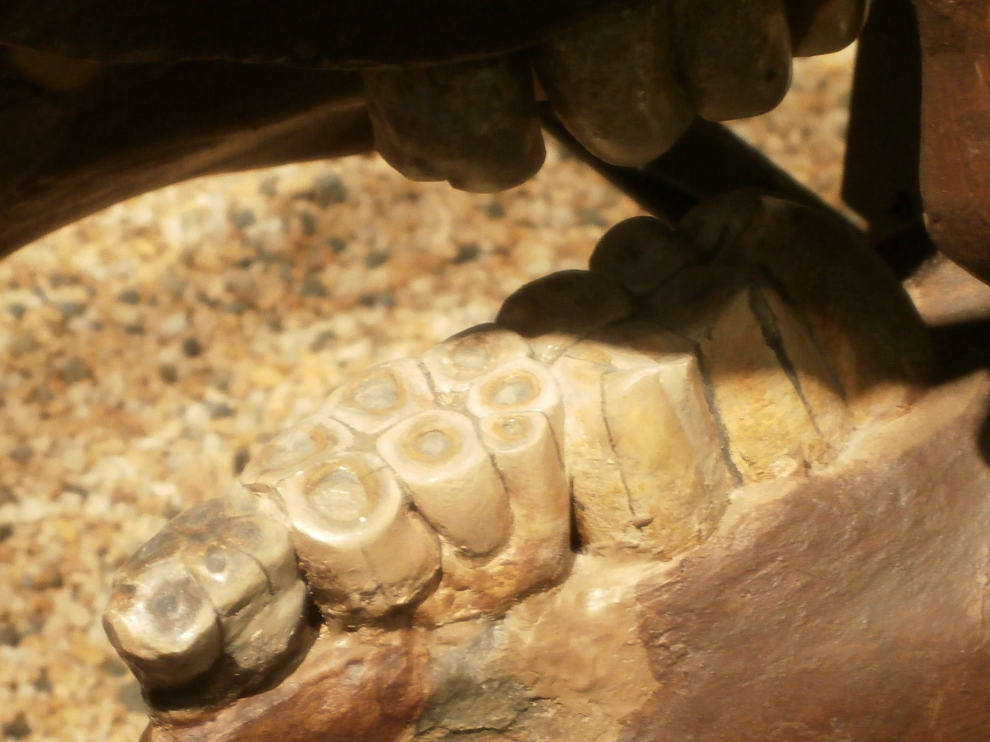 Teeth of Desmostylus (Desmostylus japonicus). Exhibit in the National Museum of Nature and Science, Tokyo, Japan.